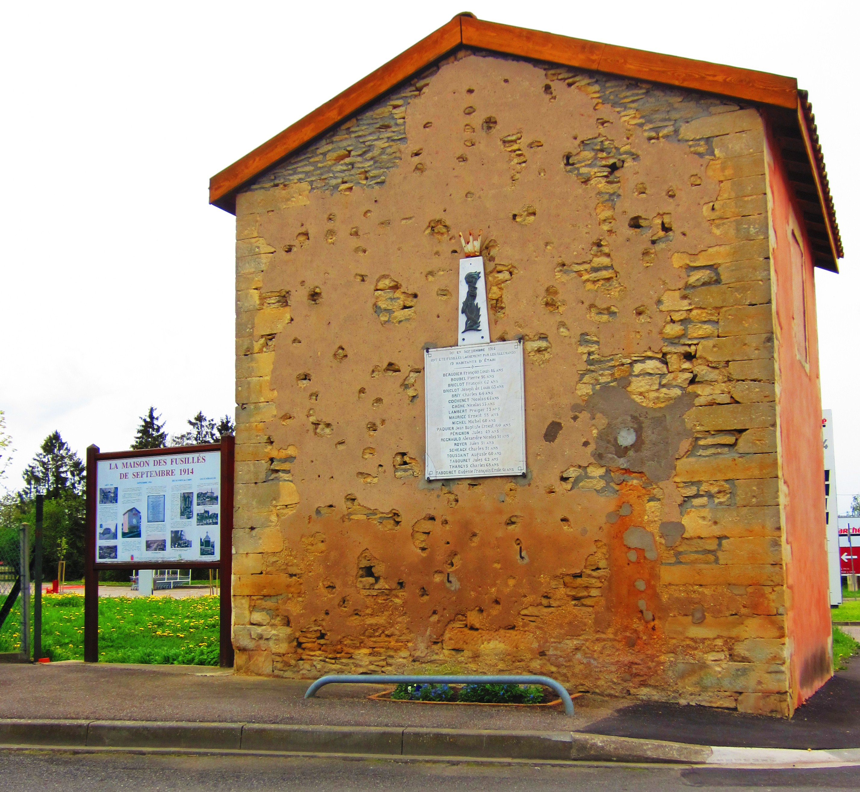 Etain house dead war